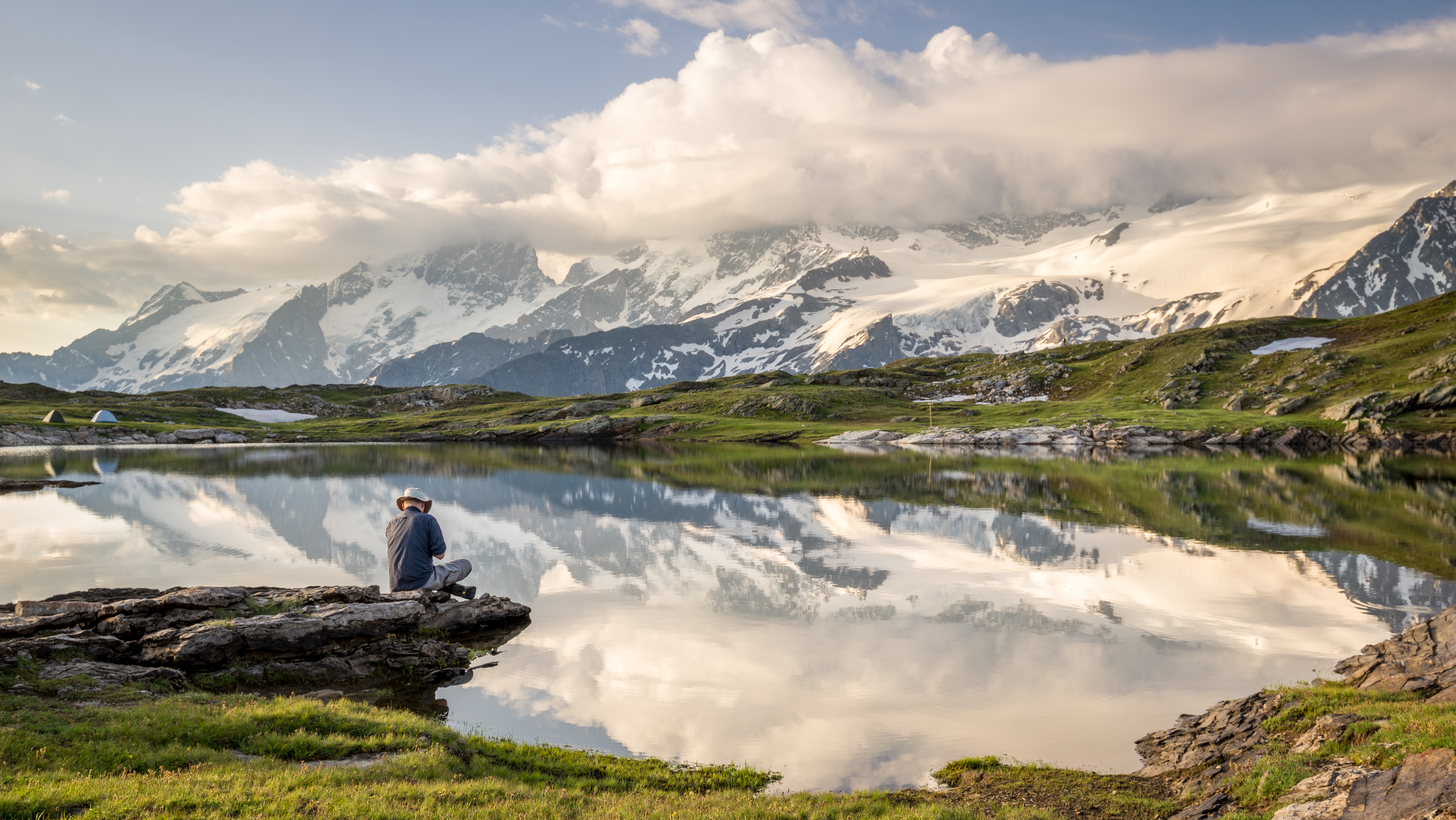 Parc national des Écrins